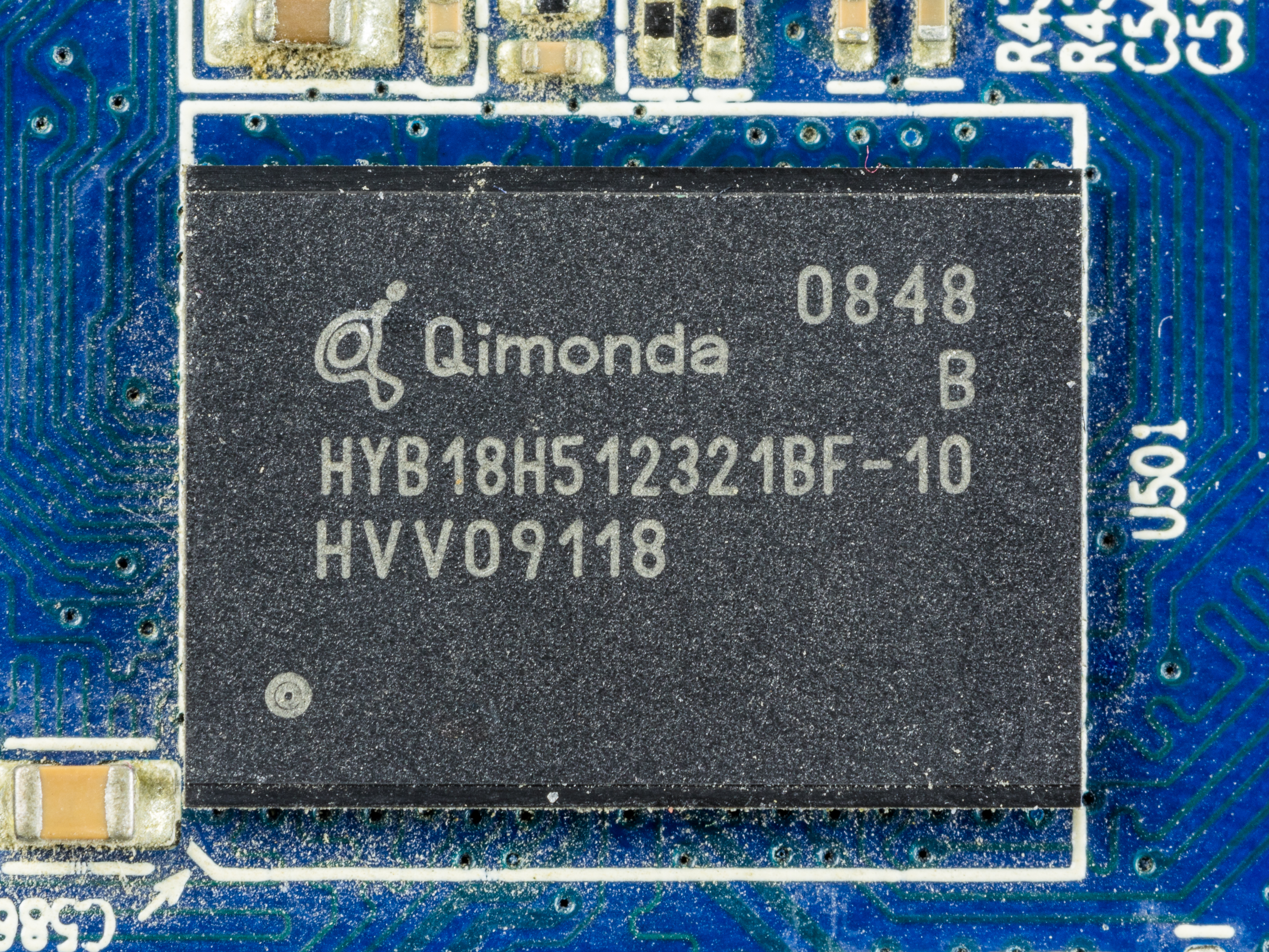 Sapphire Ultimate HD 4670 512MB - Qimonda HYB18H512321BF-10 - 512-Mbit GDDR3 Graphics RAM. Package: PG–TFBGA–136